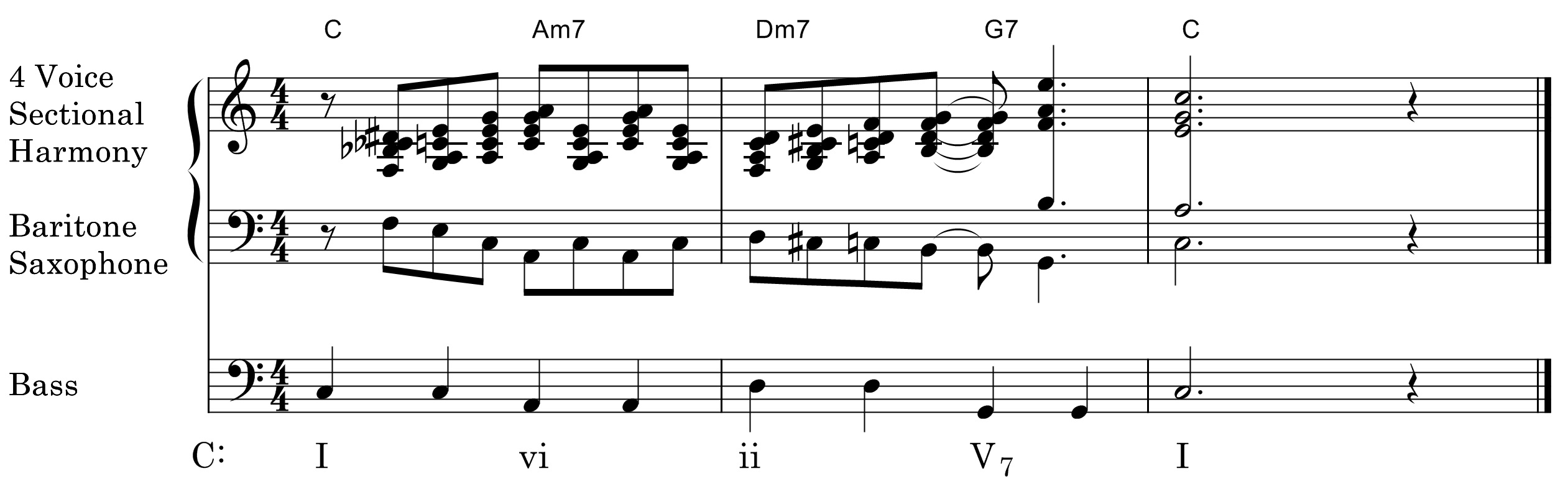 The baritone saxophone proceeding in contrary motion gets independence in the saxophone section.